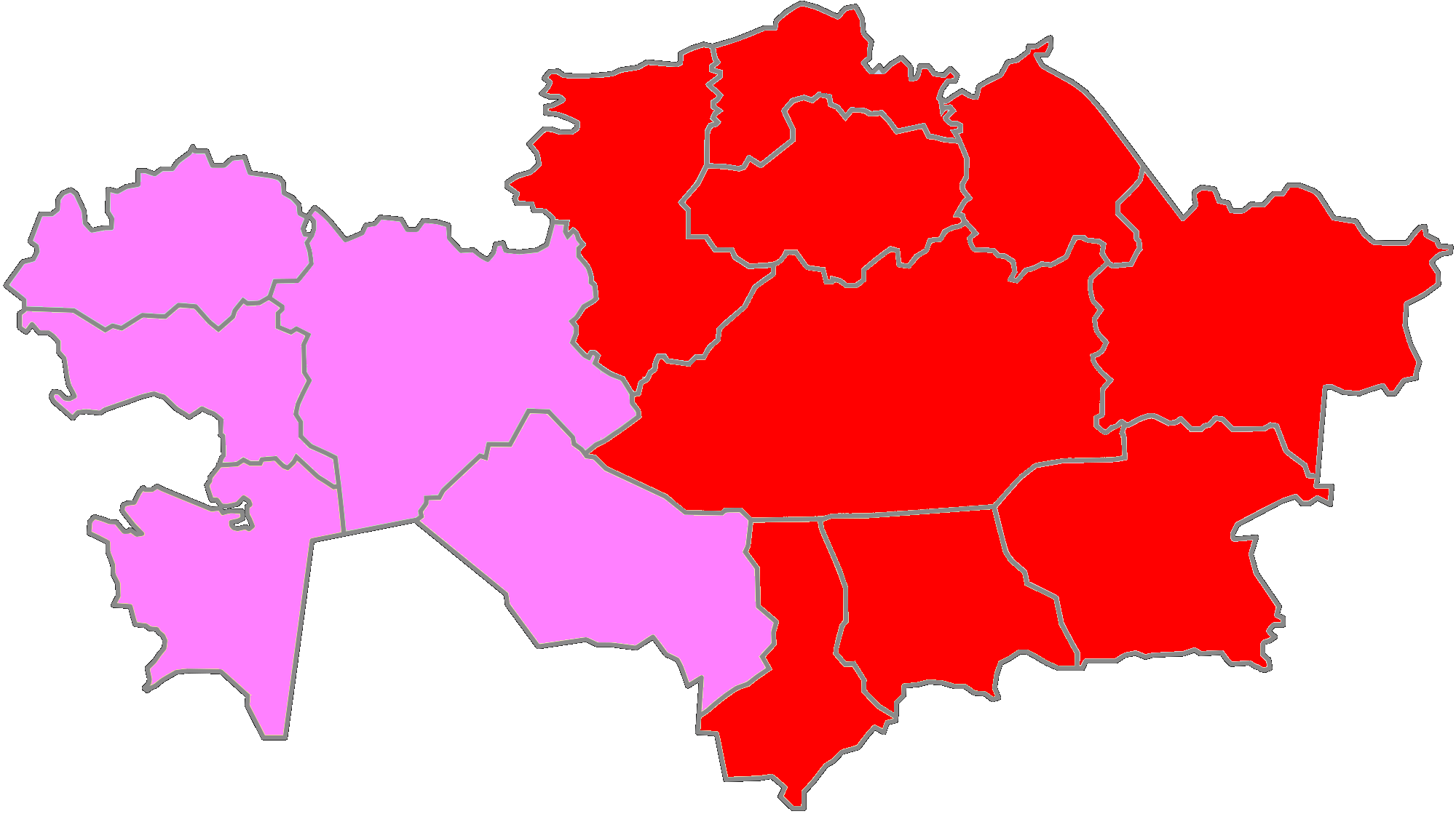 Time Zones of Kazahstan